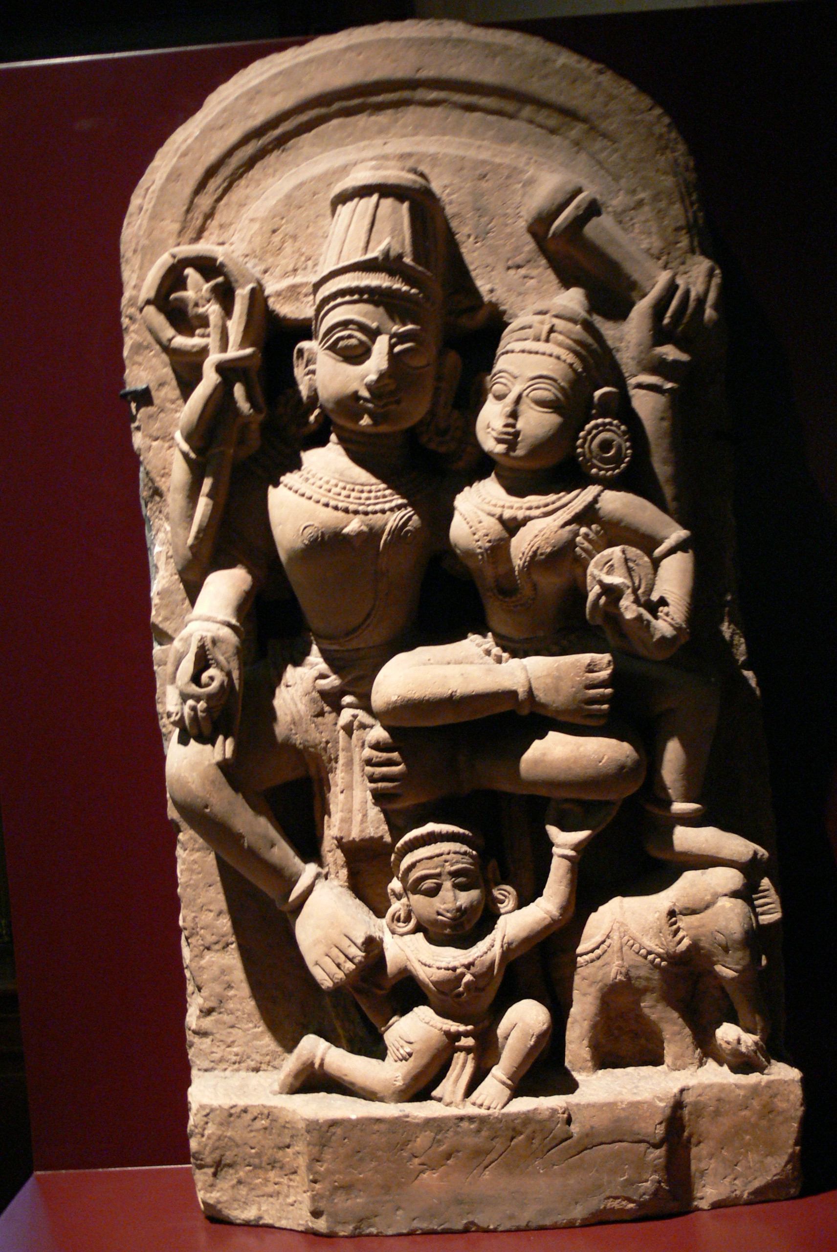 Museum of Ethnology (Vienna). Lakshmi-Narayana ( 12th century ), sandstone, from India.